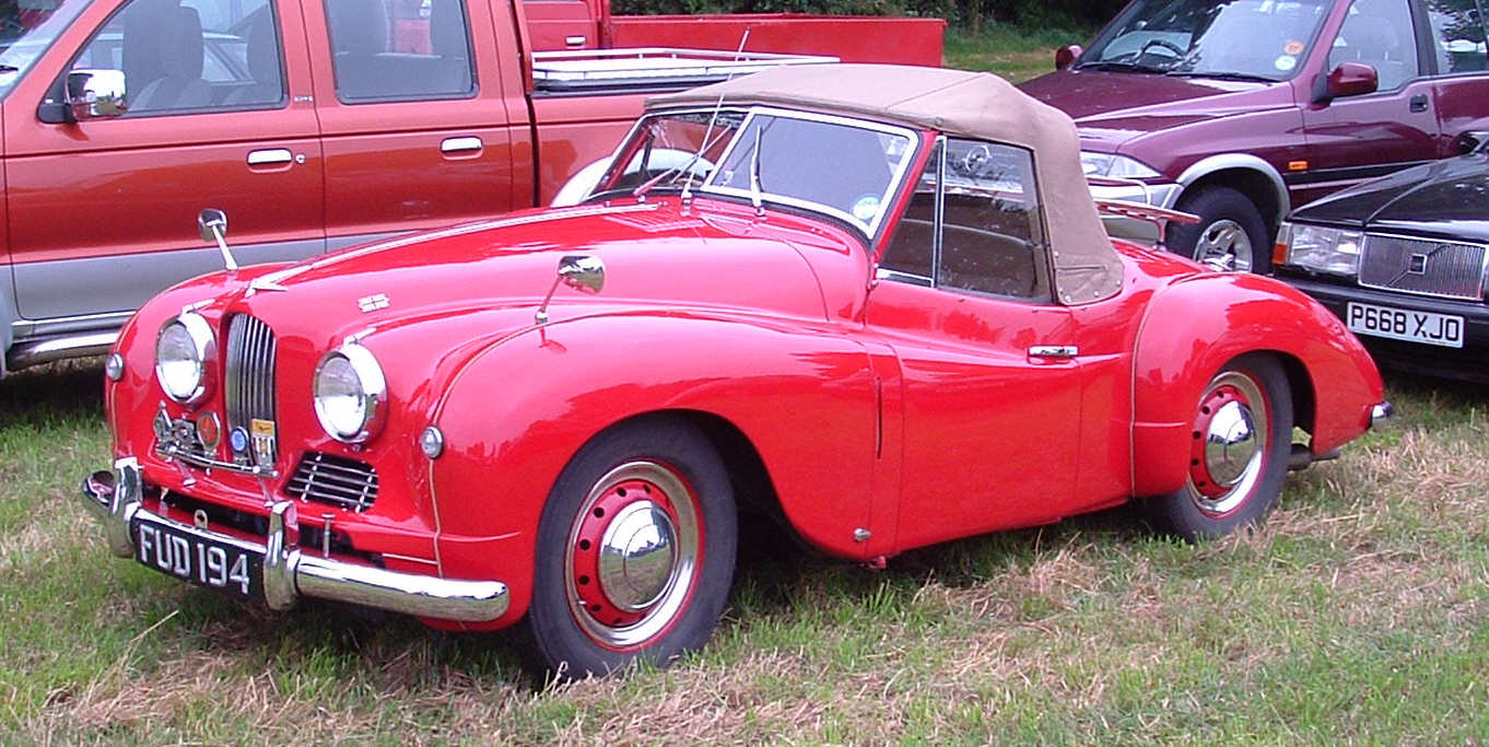 Jowett Jupiter car (DVLA) first registered 29 February 1952, 1486 cc Ashover Derbyshire